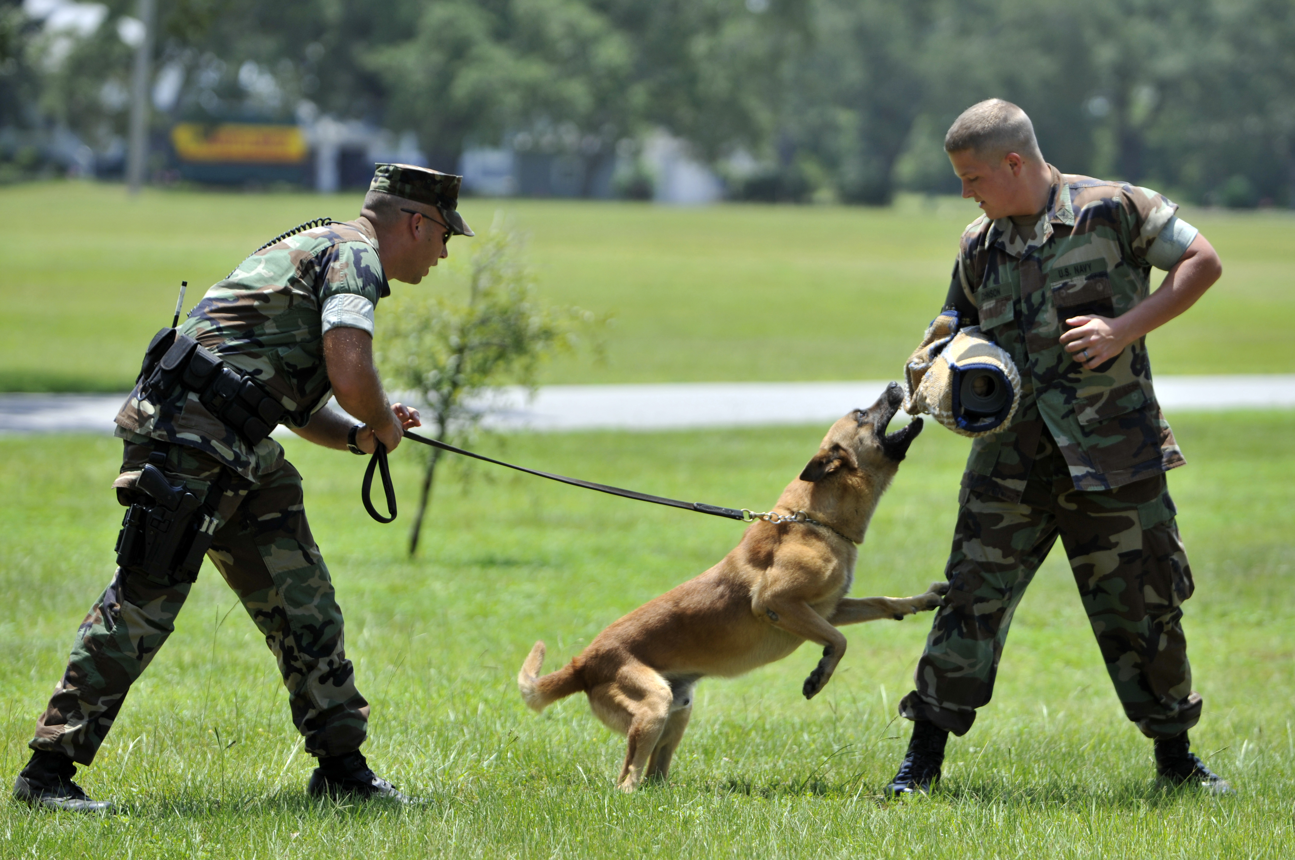 PENSACOLA, Fla. (July 28, 2008) Master-at-Arms 2nd Class Adam Taylor, from Pensacola, Fla., assigned to Naval Air Station Pensacola Security Force, performs patrol aggression training with "Drumo," a Belgian Malinois, as he subdues "bad guy" Master-at-Arms 2nd Class Joshua Johnson, from Shickshinny, Pa., at NAS Pensacola. Both Sailors, along with other Sailors assigned to NAS Pensacola Security Force, are pursuing certifications in homeland security through the Navy Credentialing Opportunities Online (COOL) Web site. (U.S. Navy photo by Gary Nichols/Released)